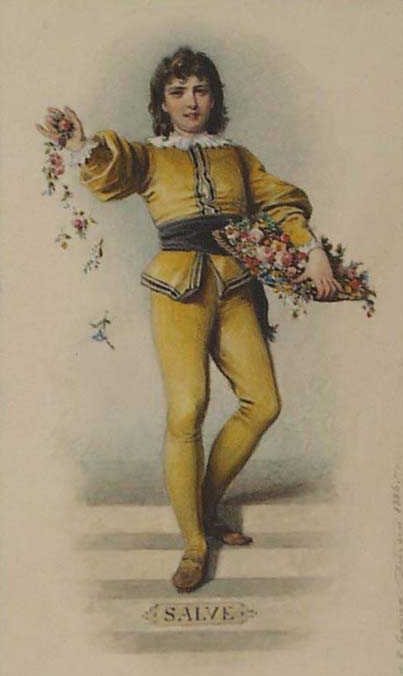 „Salve“, painting by Friedrich Gonne (1813-1906; German)